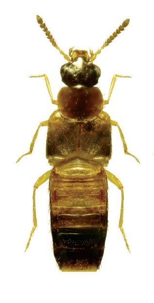 Dorsal view of Gyrophaena (G.) keeni (apical part of abdomen removed).